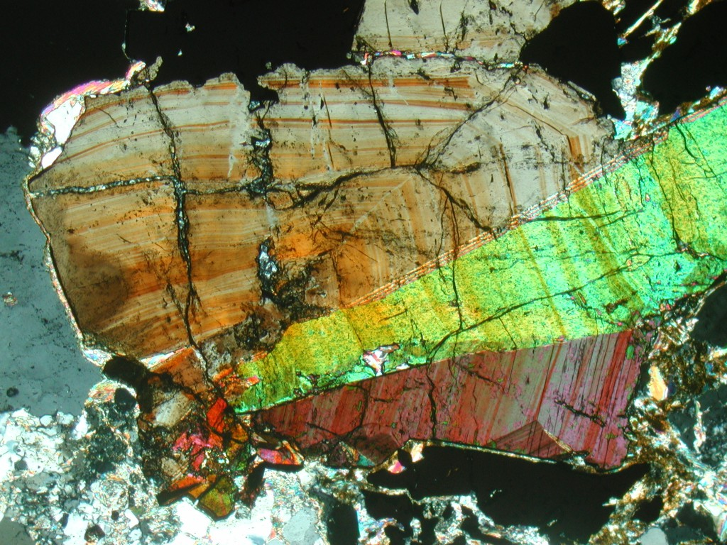 Thin section image of zoned cassiterite crystals under crossed polarised light in quartz-topas greisen. The sample was taken on the dump of Haupt-/Ottoschacht, Prebuz, Czech Republic. The image width is 3.3 mm.